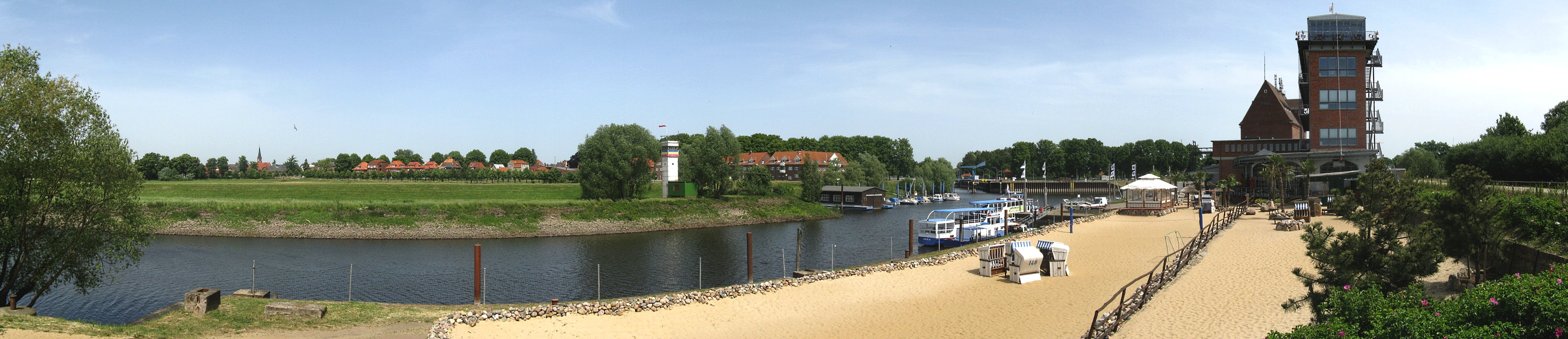 Harbour of Dömitz, Mecklenburg-Vorpommern, Germany; Canal: Eldekanal short before confluence into the Elbe river